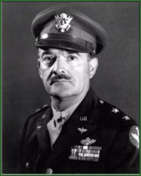 Major General Frank O Hunter, USAAF